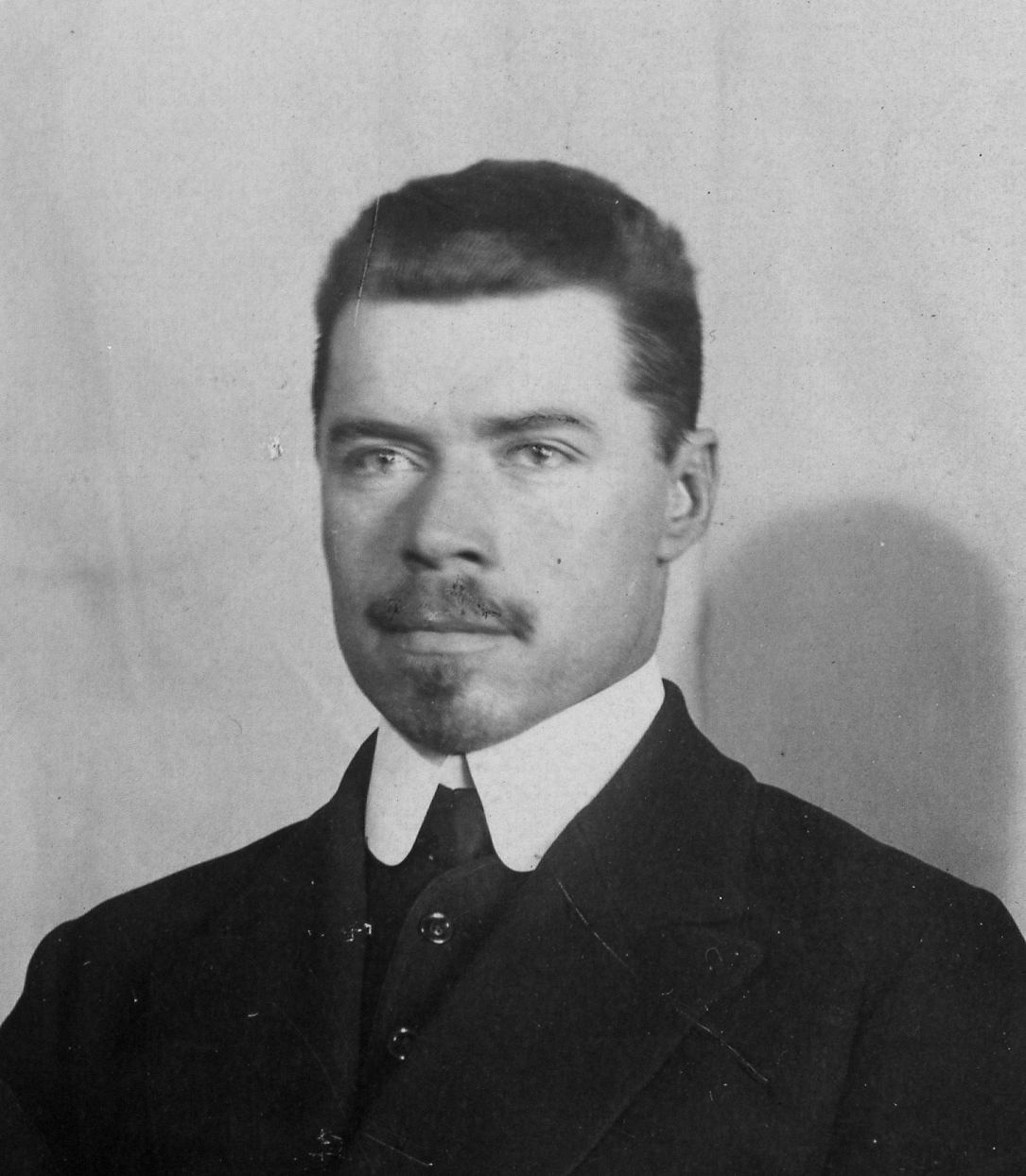 Vinogradov Anatoliy Korniliyevich (1888—1946) - Russian writer